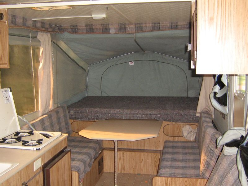 Jayco tent camper pop-out bedroom